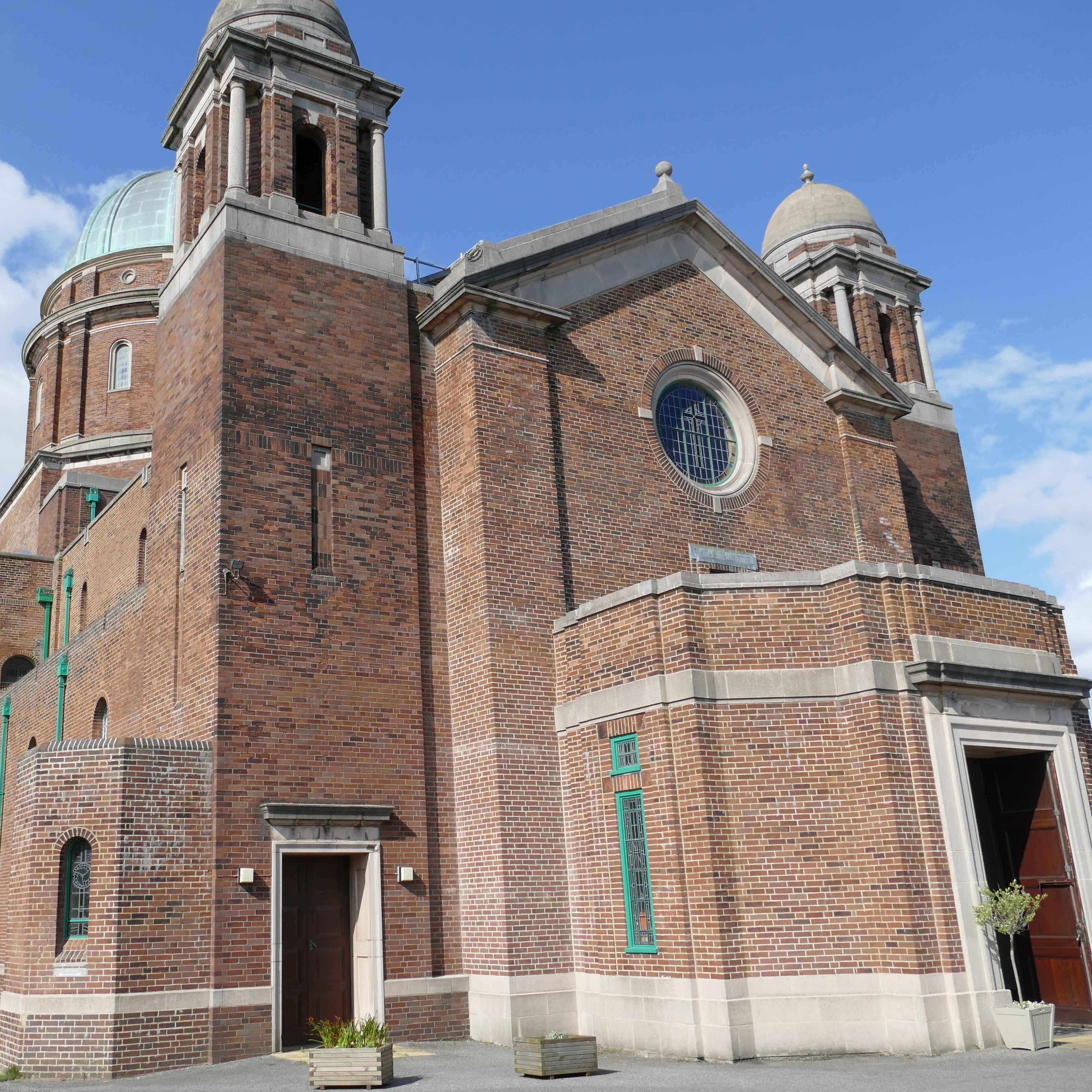 The west front of SS Peter and Pau and St Philomena